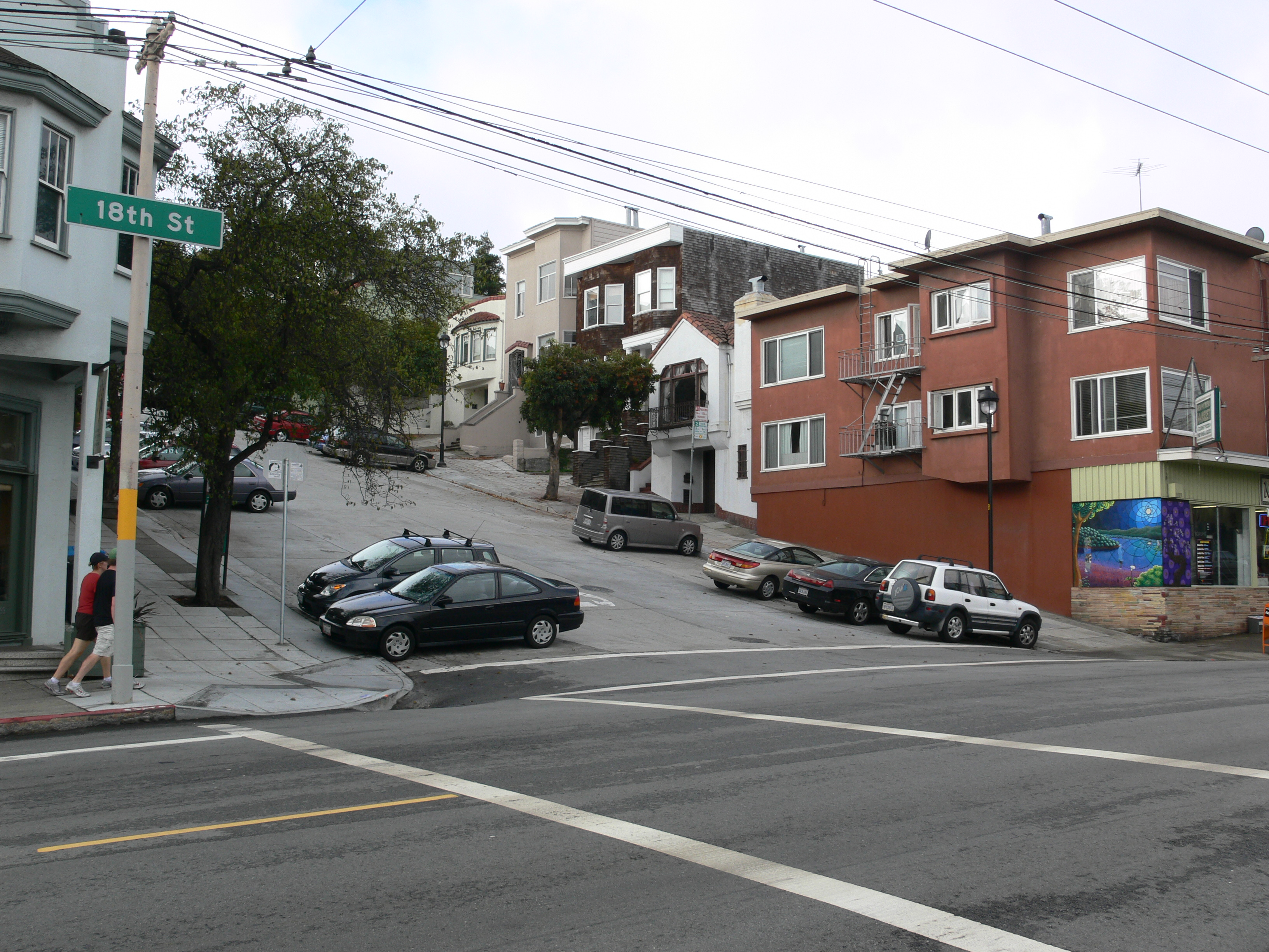 Texas Street and 18th Street, Potrero Hill, San Francisco, California